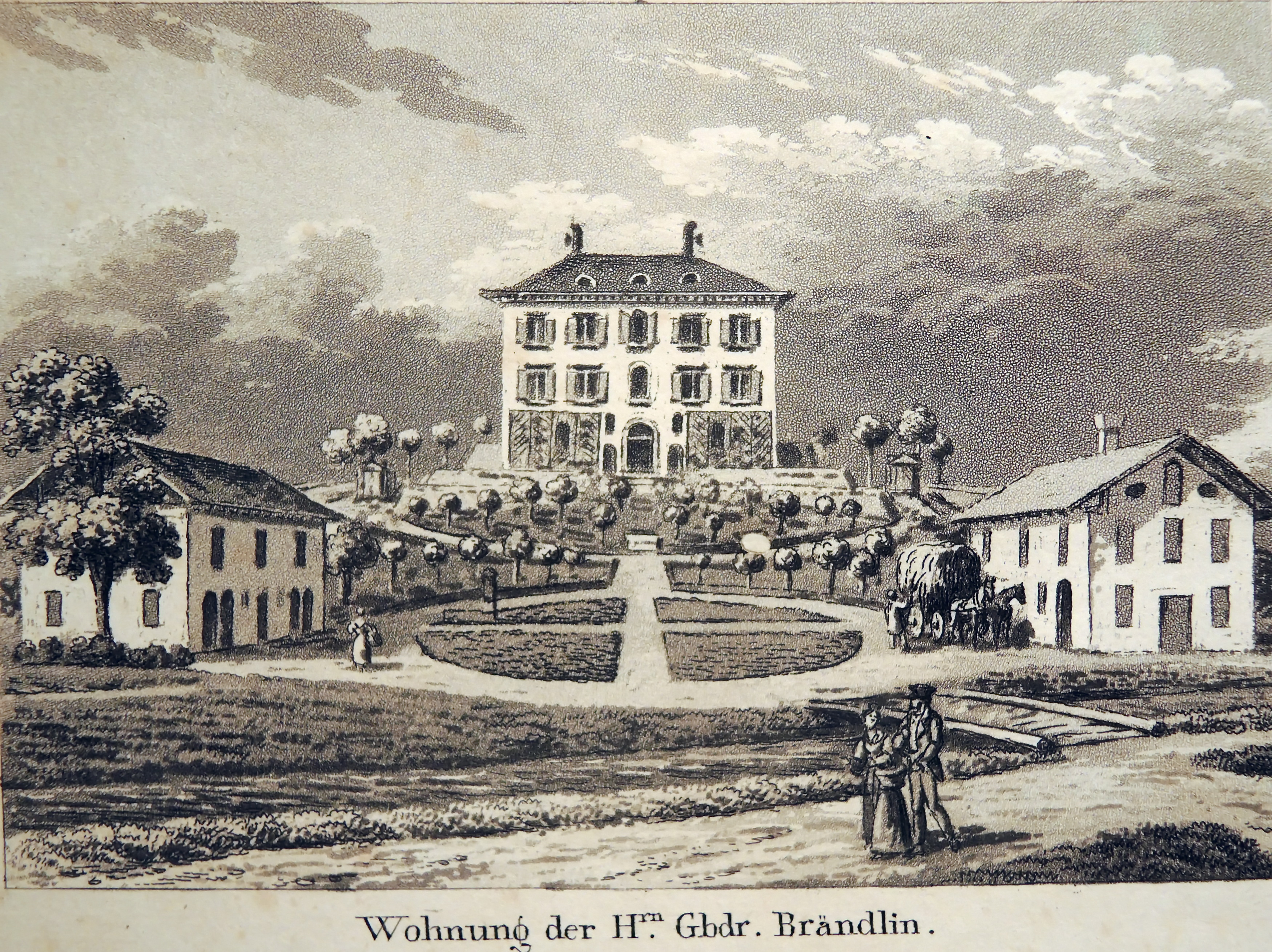 Collection of the Stadtmuseum) in Rapperswil (Switzerland)